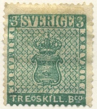 An 1855 Swedish Three Schilling Banco Green (3 skilling Banco Grön) stamp. From the collections of the Swedish Postal Museum.